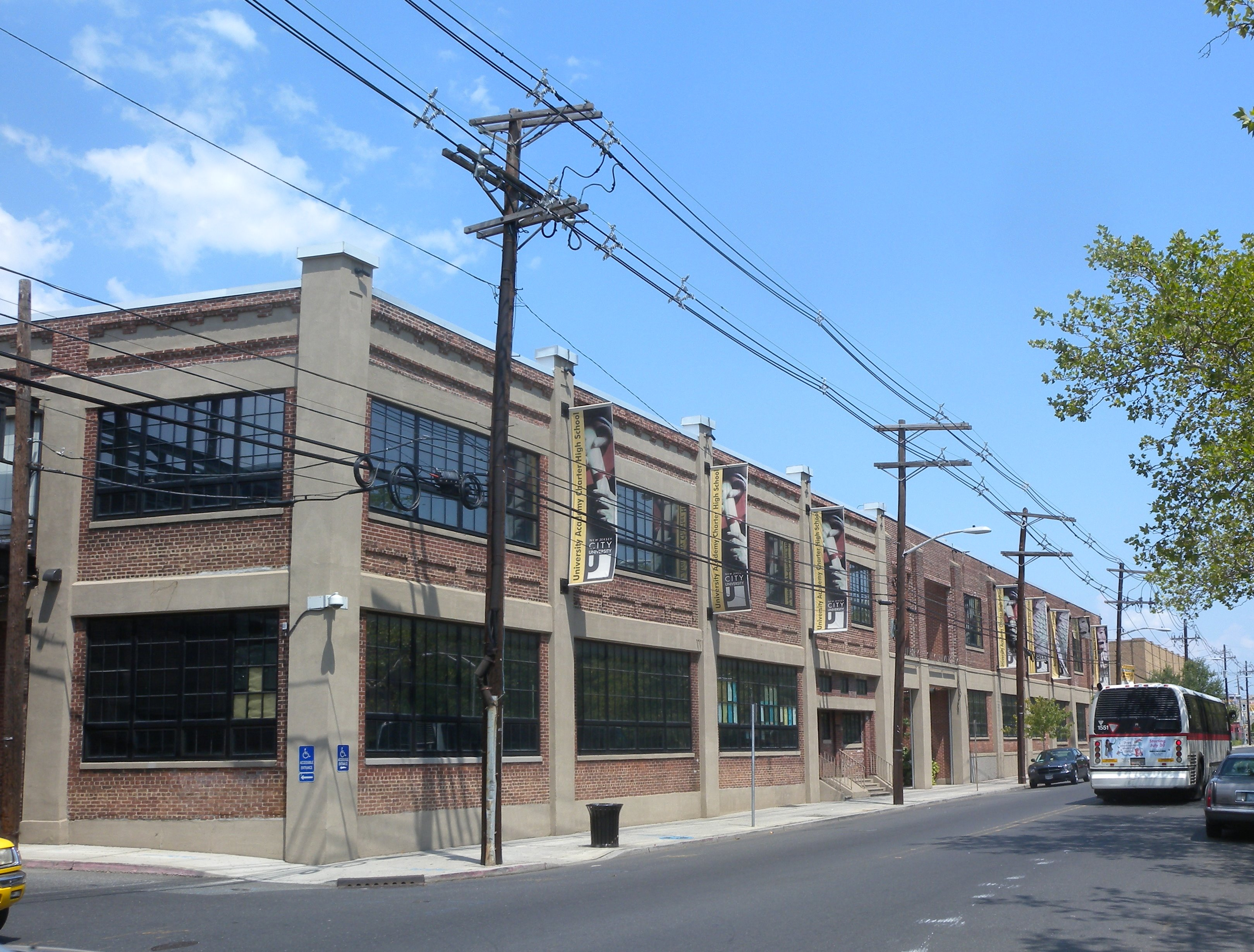 Looking north along West End Avenue at University Academy Charter High School on a mostly sunny midday.